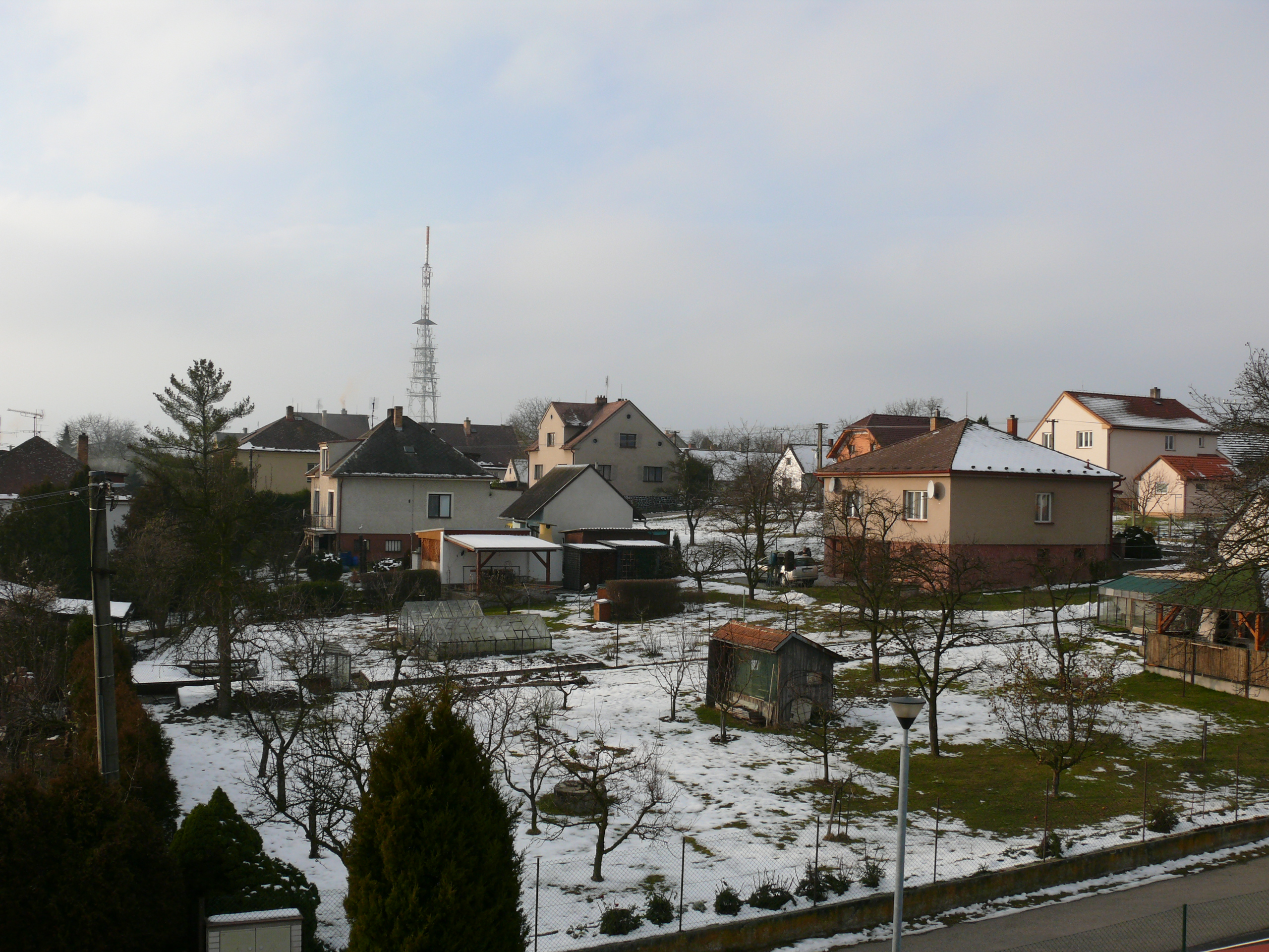 Village of Radimovice u Zelce, Czech Republic